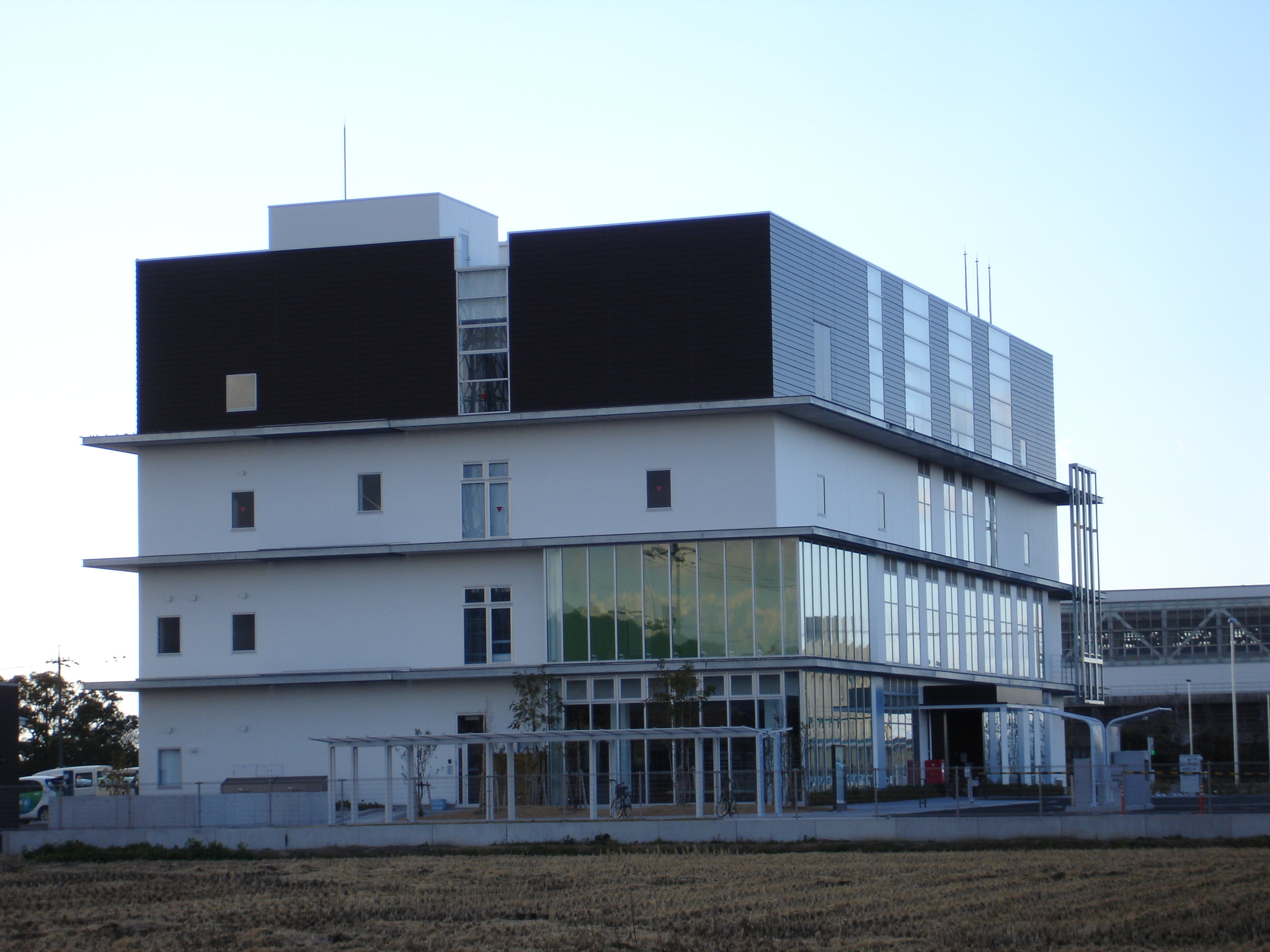 Okayama city Minami ward office